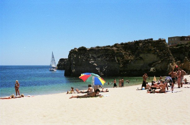 Lagos Beach, Portugal.